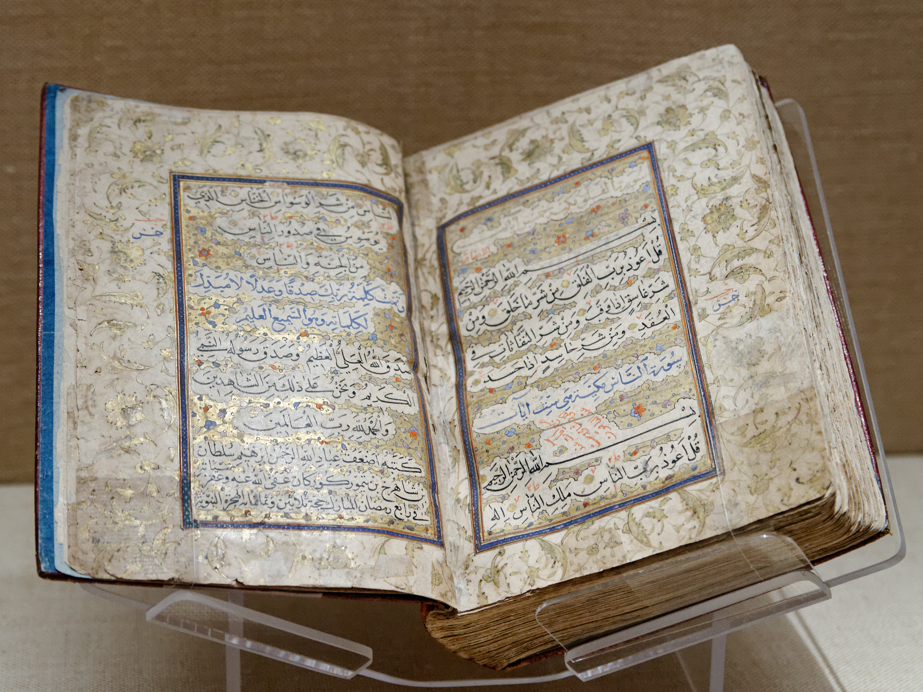 Qur'an calligraphed by Ibrahim Sultan, signed and dated to June 1427.